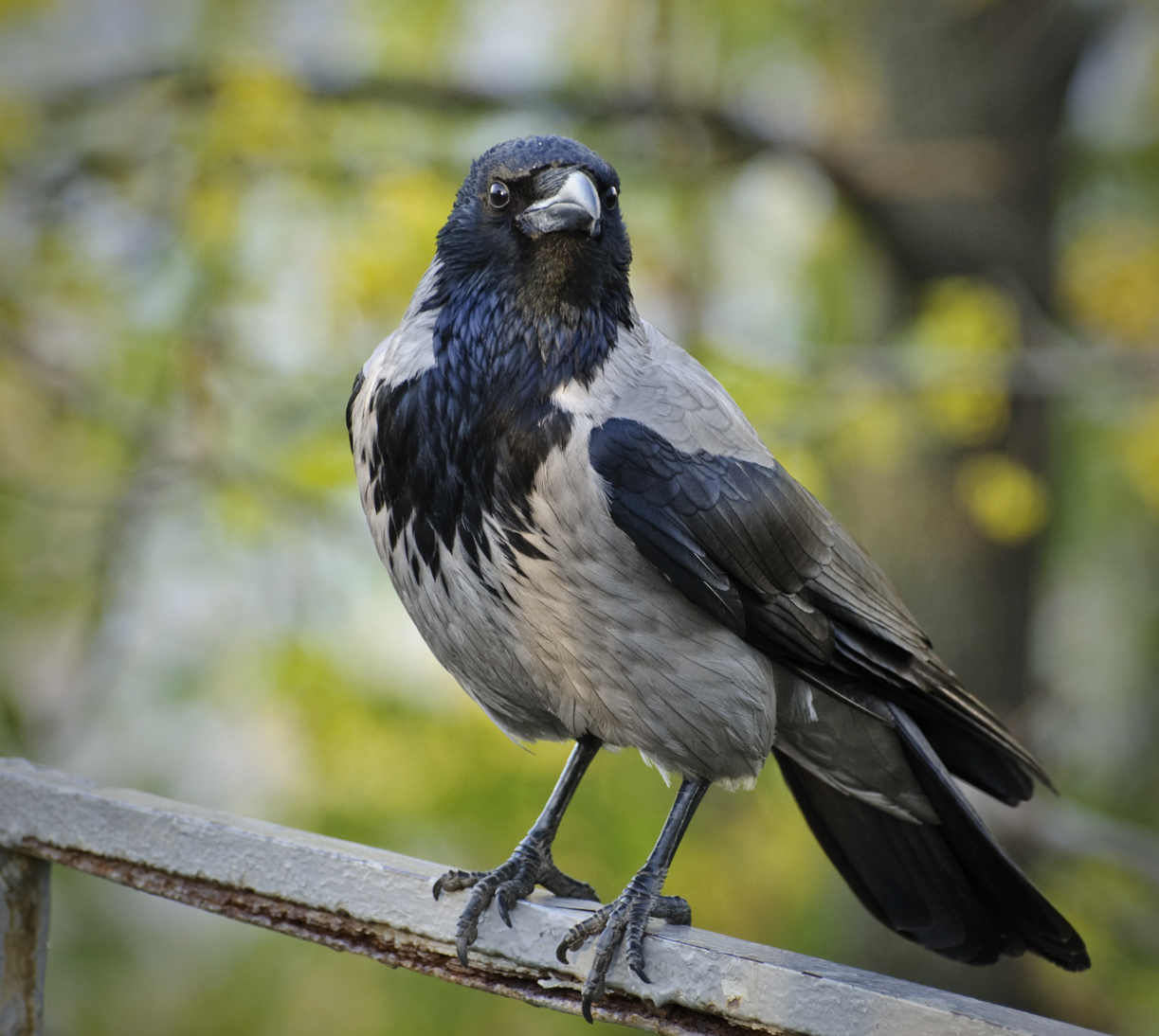 A Hooded Crow perching in Kiev, Ukraine.